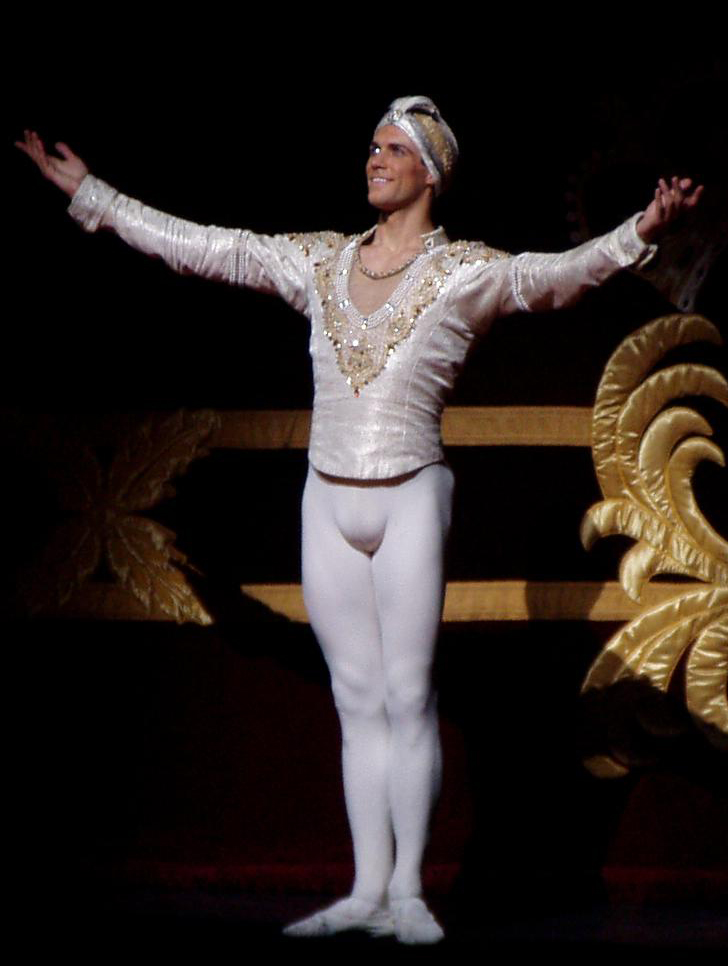 Roberto Bolle as Solor in the Royal Ballet production of La Bayadere. Cropped from scillystuff's original file.